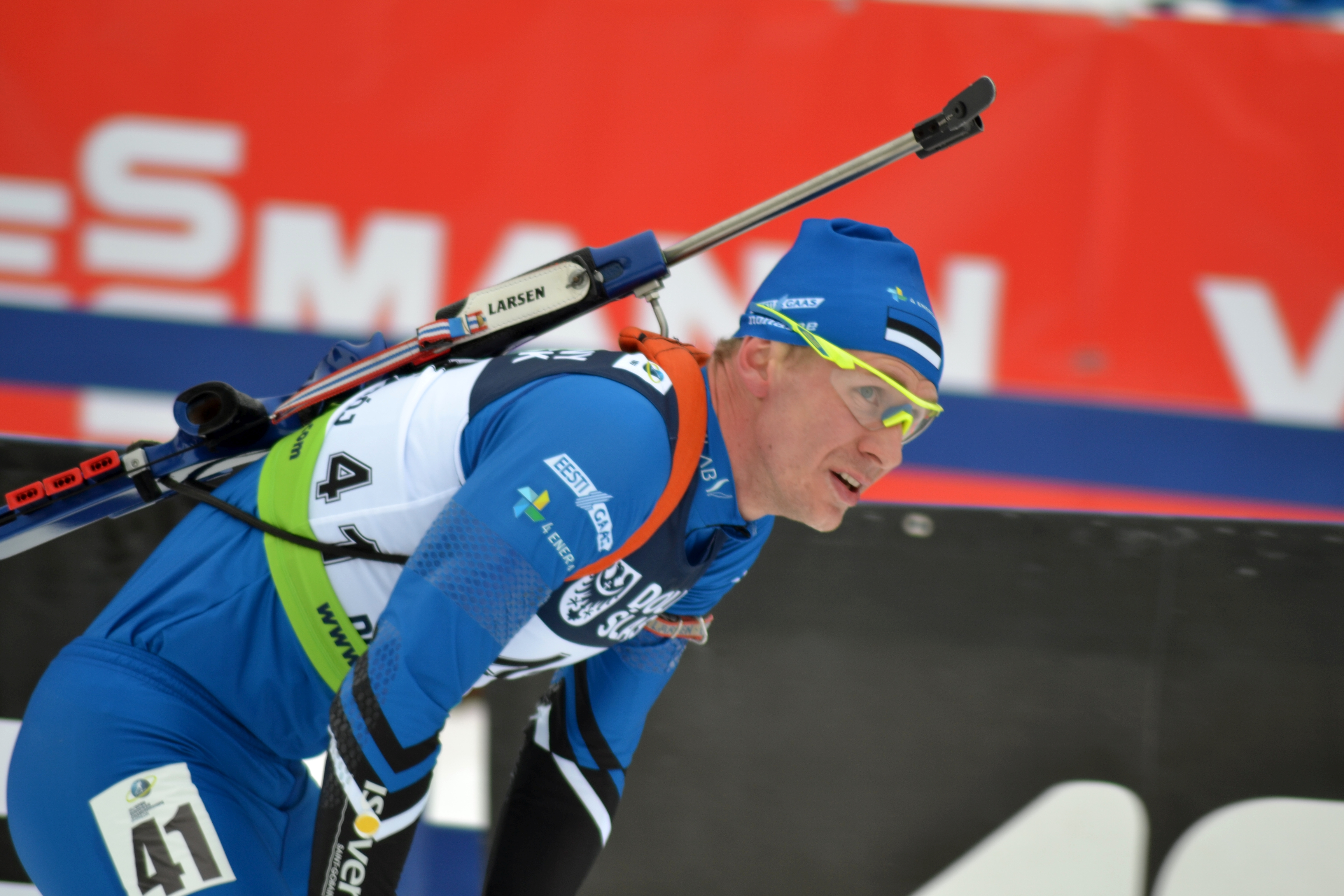 Open European Championships Biathlon 2017, Individual Men's race, held on January 25th.